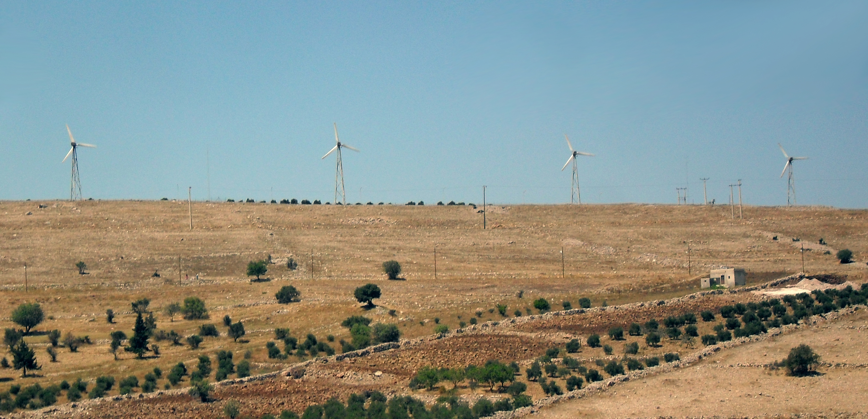 320kW Ibrahimyah Wind Power Plant, 80km north of Amman, Jordan.